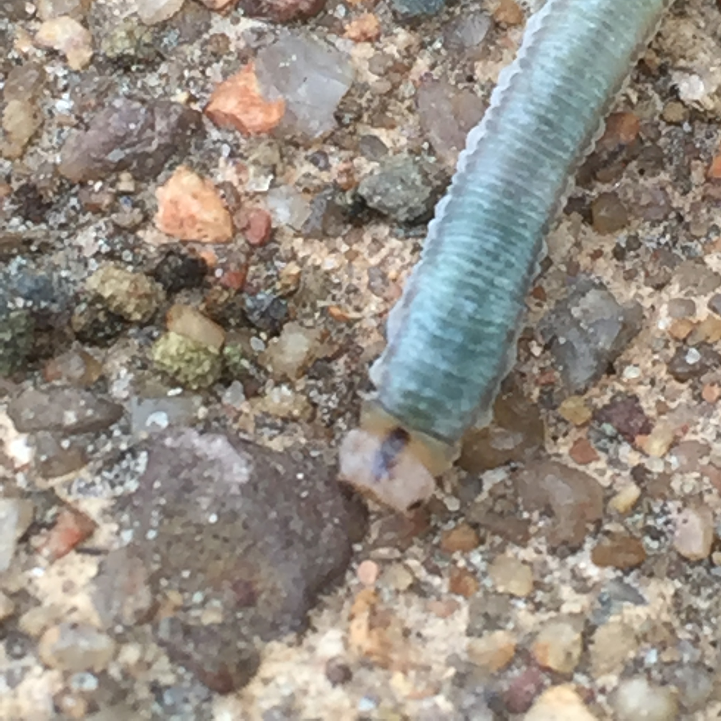 Head of larva of Monostegia abdominalis, preparing to burrow into ground